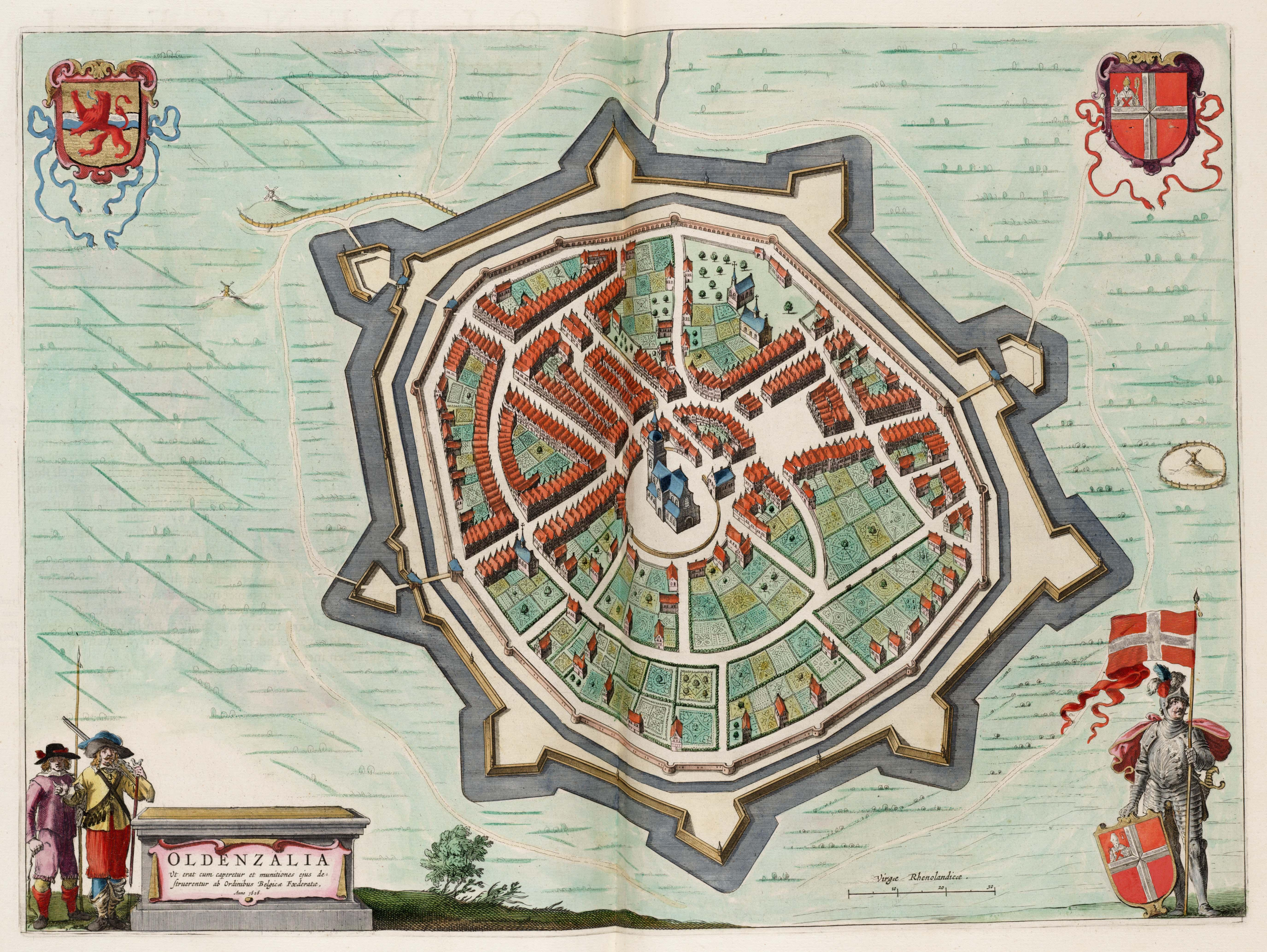 Oldenzalia - Map of Oldenzaal in 1626. "OLDENZALIA Ut erat cum caperetur et munitiones ejus de- struerentur ab Ordinibus Belgic Foederat Anno 1626"